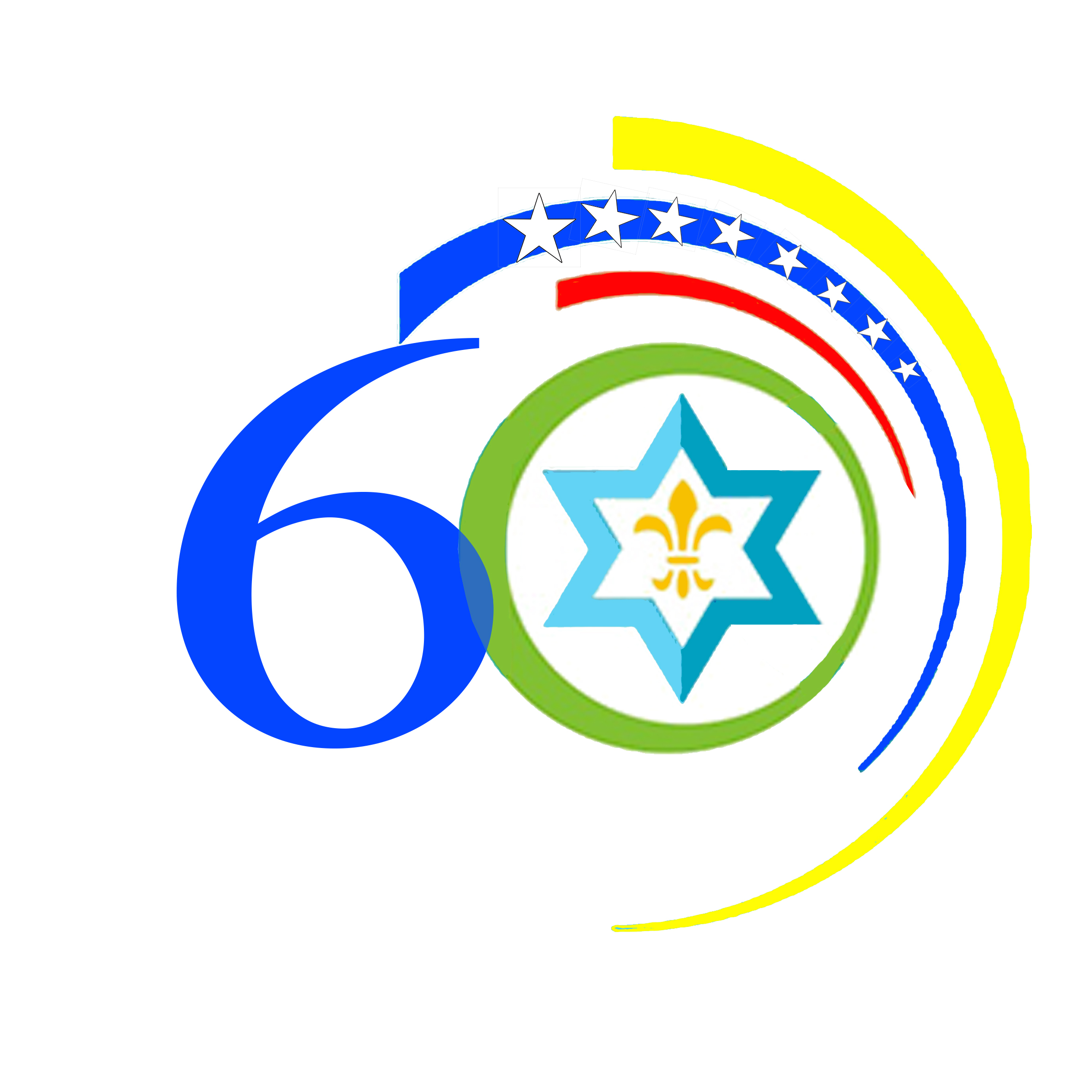 Logo of the 60th anniversary of Ken Najshon , founded in 1954 by Tamara Campos